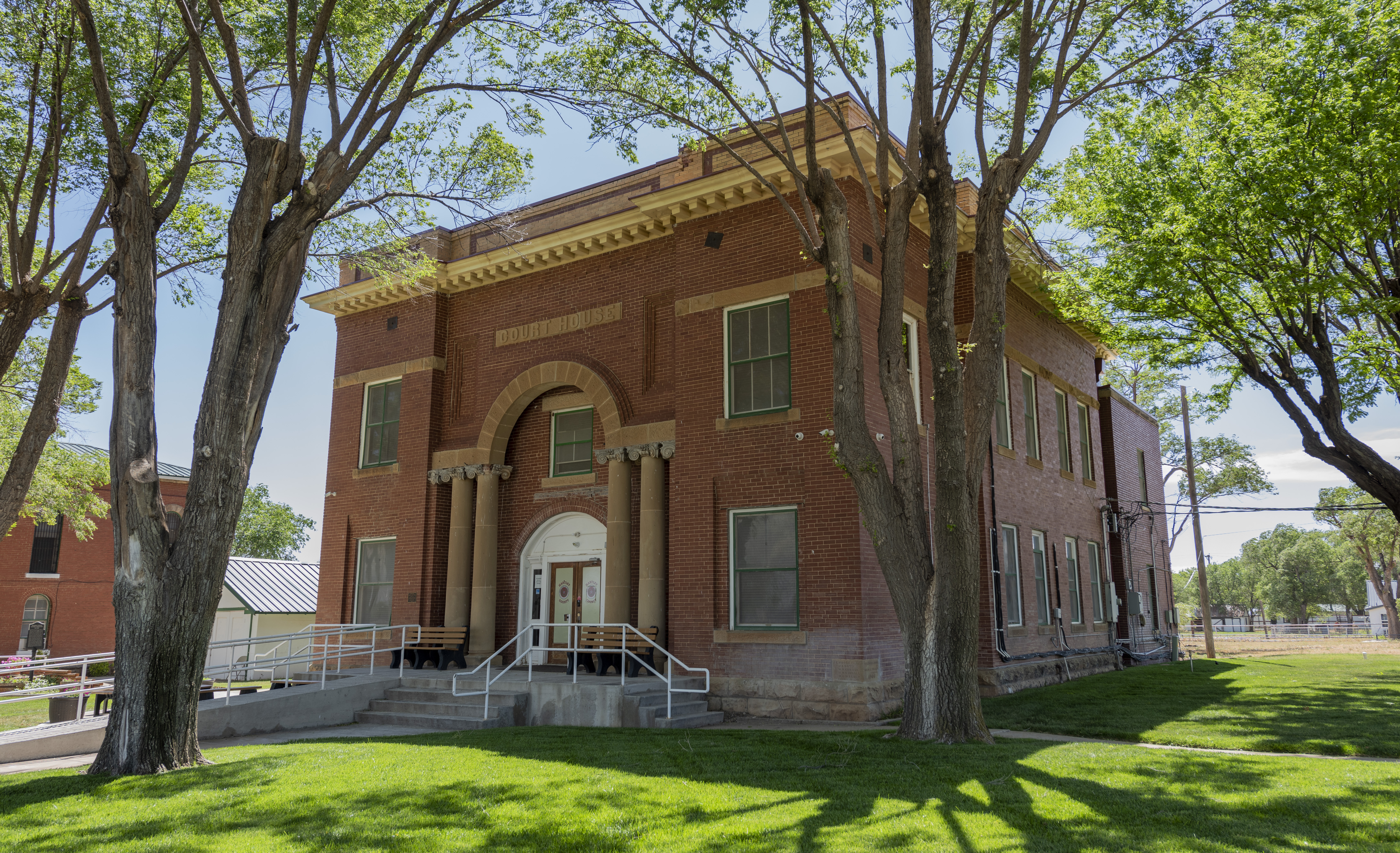 Image of the Hartley County, Texas courthouse located in Channing, Texas. Taken in May 2020.